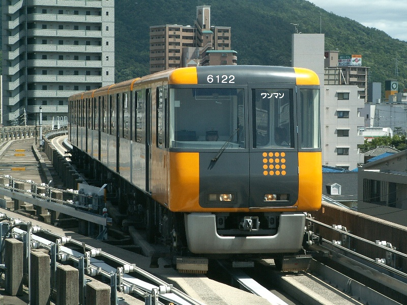 An Astram Line} 6000 series EMU